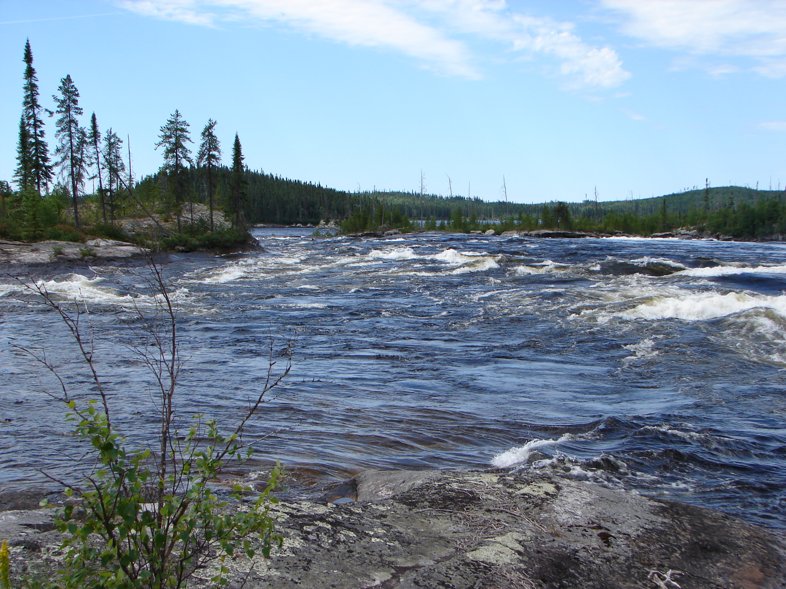 Rupert River just downstream of the North Road, Quebec, Canada.